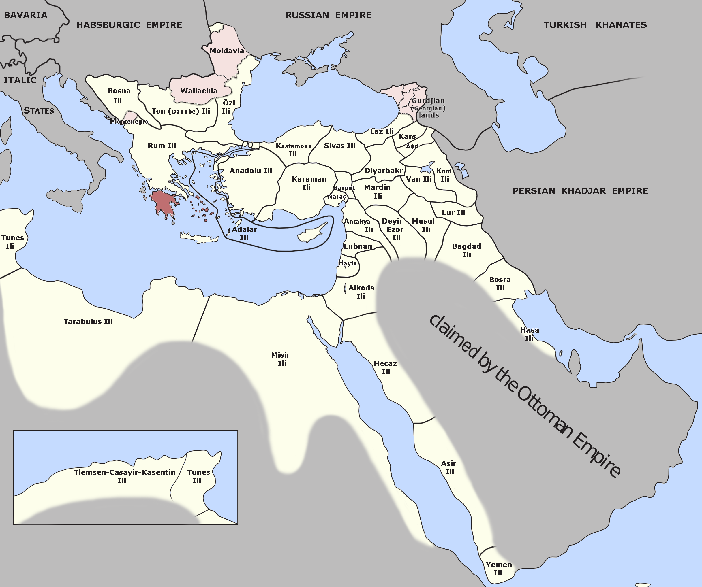 XY Eyalet, Ottoman Empire (1795). Source: A Brief History of the Late Ottoman Empire at Google Books By M. Sukru Hanioglu, Figure 1